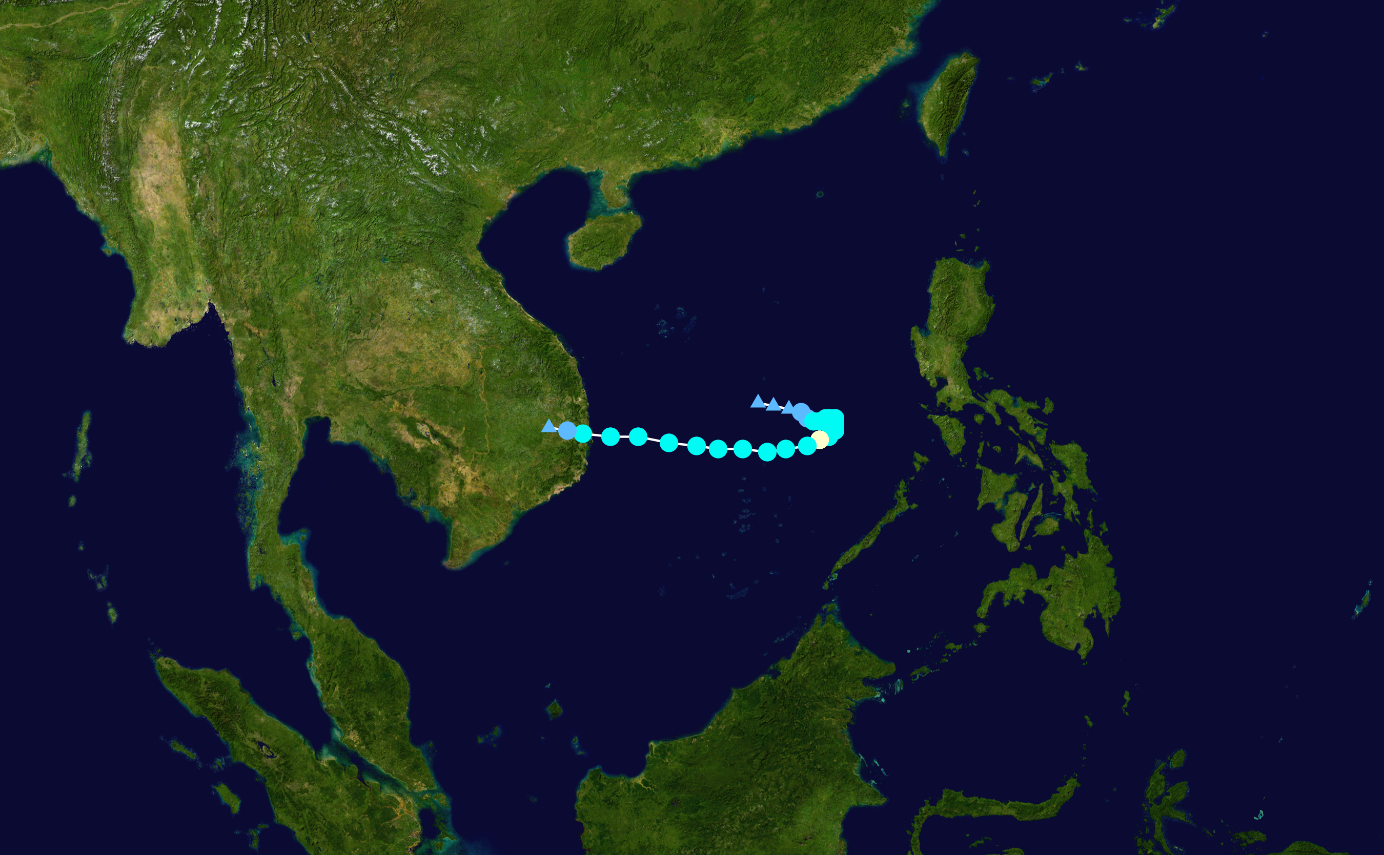 Track map of Typhoon Nakri of the 2019 Pacific typhoon season. The points show the location of the storm at 6-hour intervals. The colour represents the storm's maximum sustained wind speeds as classified in the Saffir–Simpson scale (see below), and the shape of the data points represent the nature of the storm, according to the legend below. Saffir–Simpson scale Tropical depression≤38 mph≤62 km/h Category 3111–129 mph178–208 km/h Tropical storm39–73 mph63–118 km/h Category 4130–156 mph209–251 km/h Category 174–95 mph119–153 km/h Category 5≥157 mph≥252 km/h Category 296–110 mph154–177 km/h Unknown Storm type Tropical cyclone Subtropical cyclone Extratropical cyclone / Remnant low / Tropical disturbance / Monsoon depression